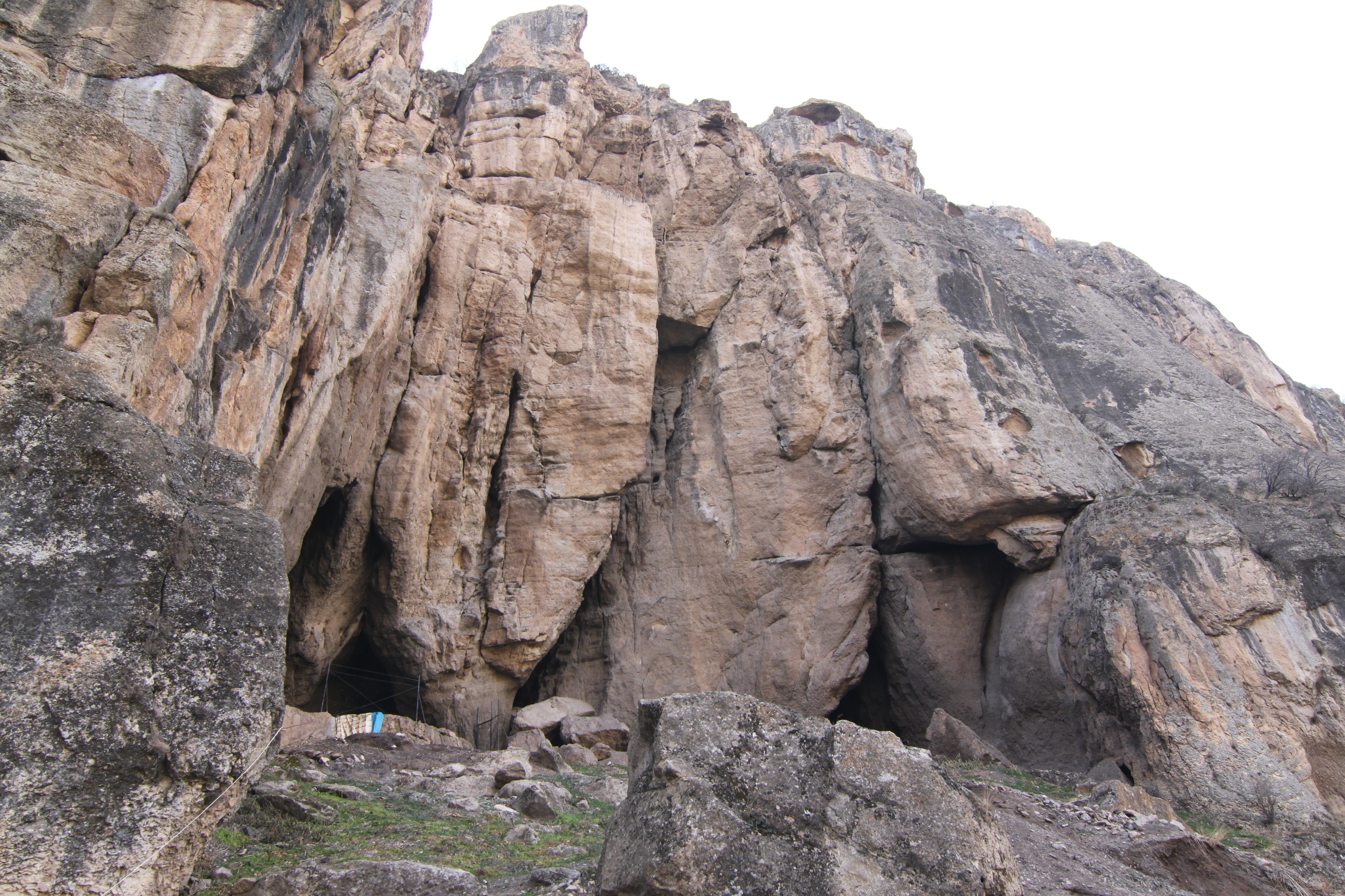 Entrance to the Areni-1 cave in southern Armenia near the town of Areni. The cave is the location of the world's oldest known winery and where the world's oldest known shoe has been found.